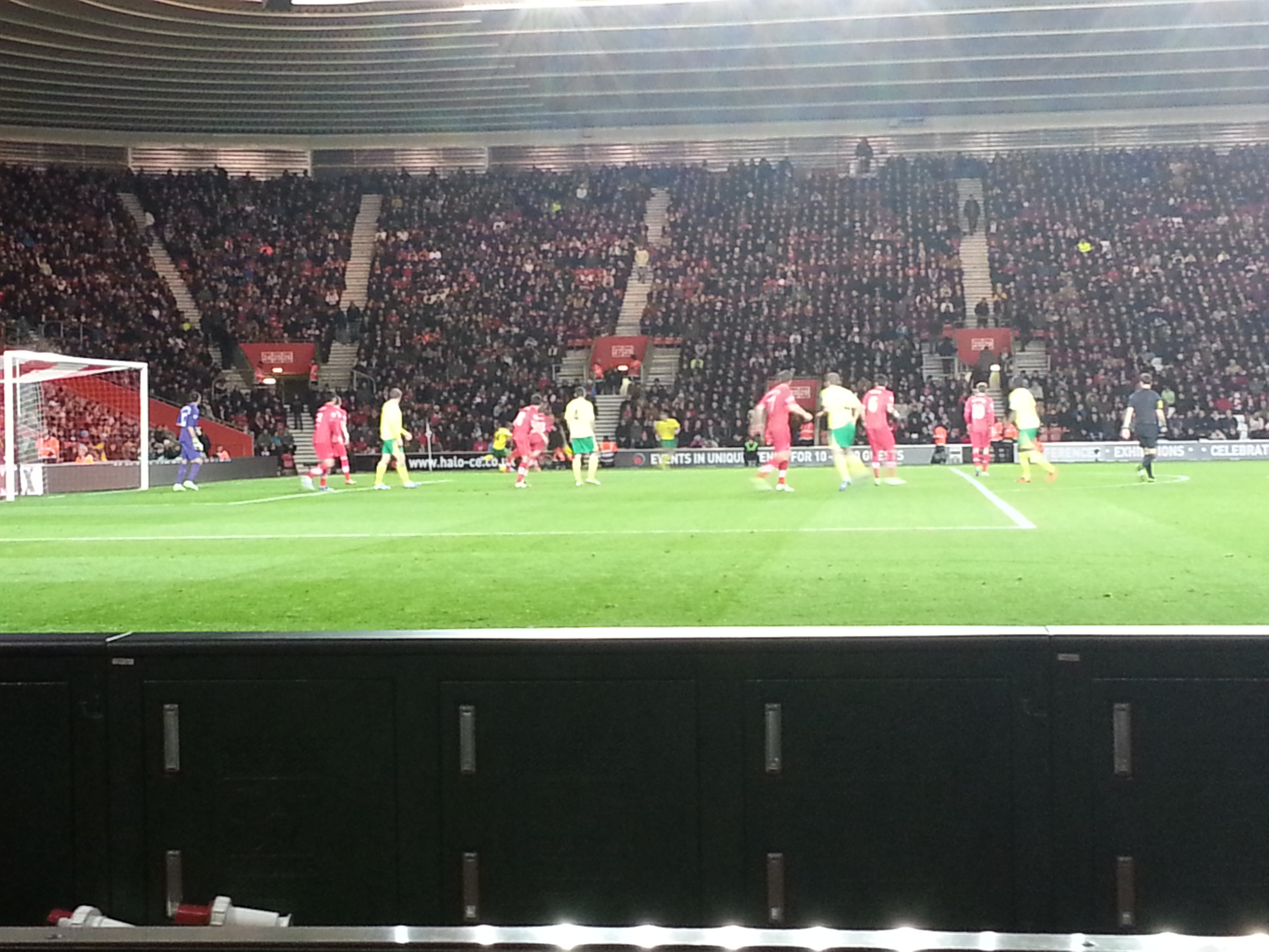 Southampton and Norwich City playing at St Mary's Stadium in the Premier League on 28 November 2012.